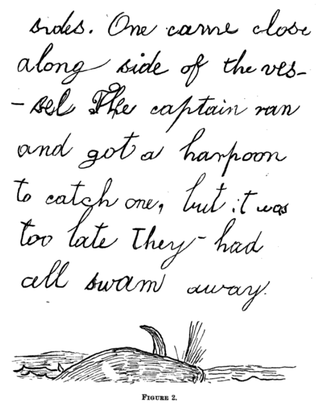 A page from the personal notebook of young naturalist Edward Drinker Cope (1840-1897). Cope was at the time 7 years of age, on a voyage to Boston as a birthday present from his father.[1] Source text: "[...] One came close along side of the ves-sel The captain ran and got a harpoon to catch one, but it was too late they had all swam away."